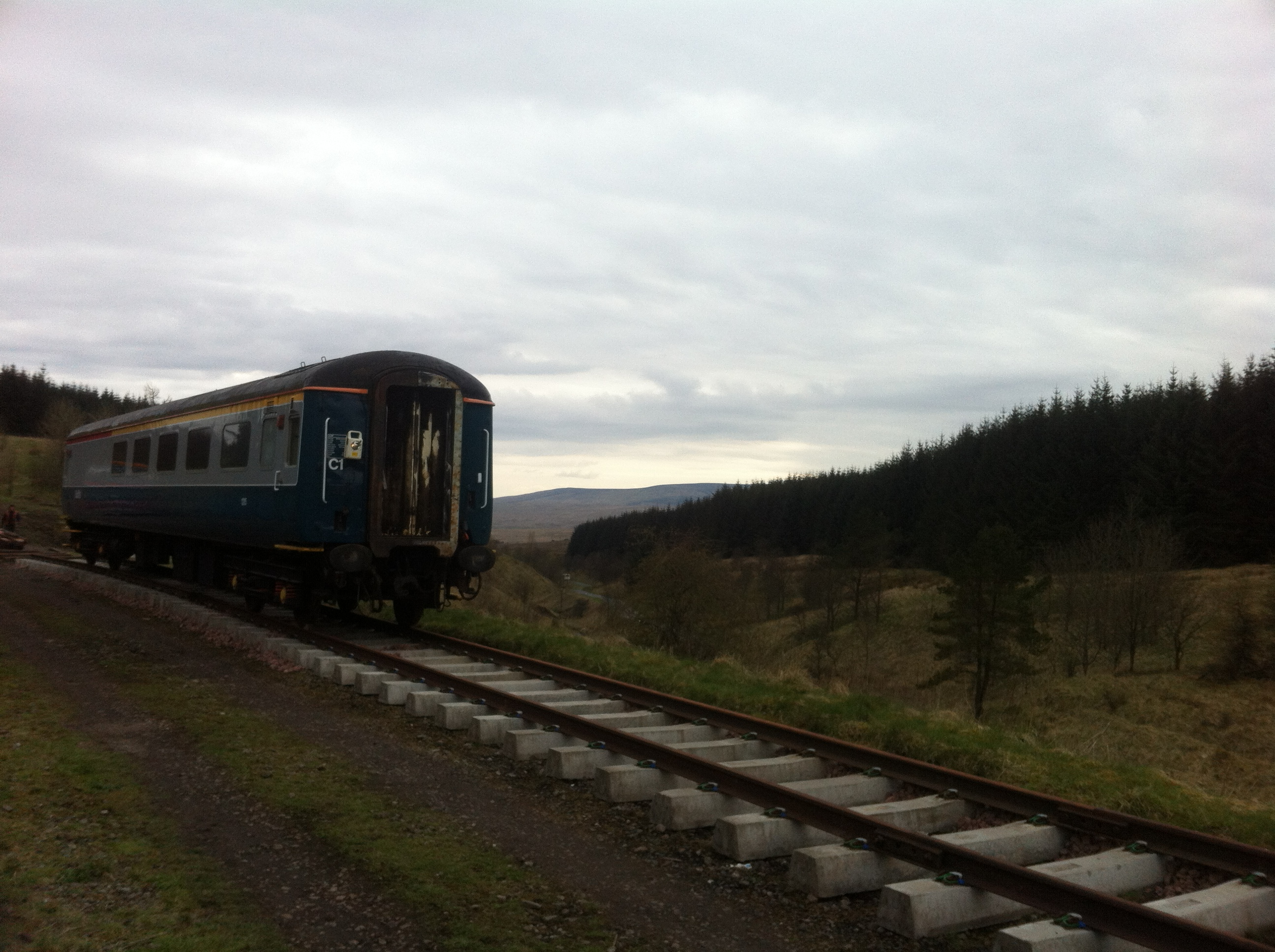 Mk2f RFO 1215, a Buffet car, is seen at Whitrope with hills in the background. Picture taken on the day of delivery.